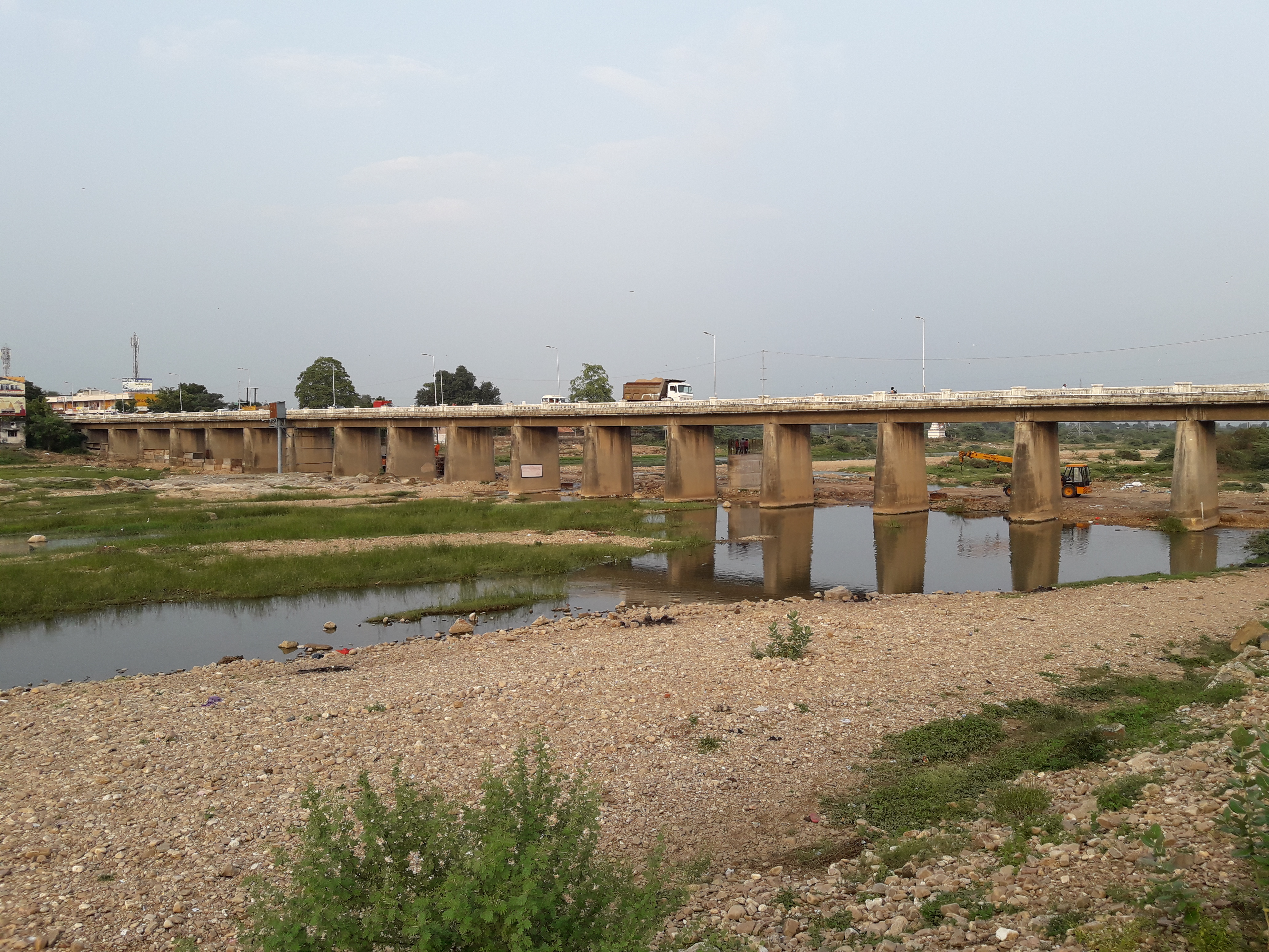 Harnav River Bridge in Khedbrahma Gujarat India